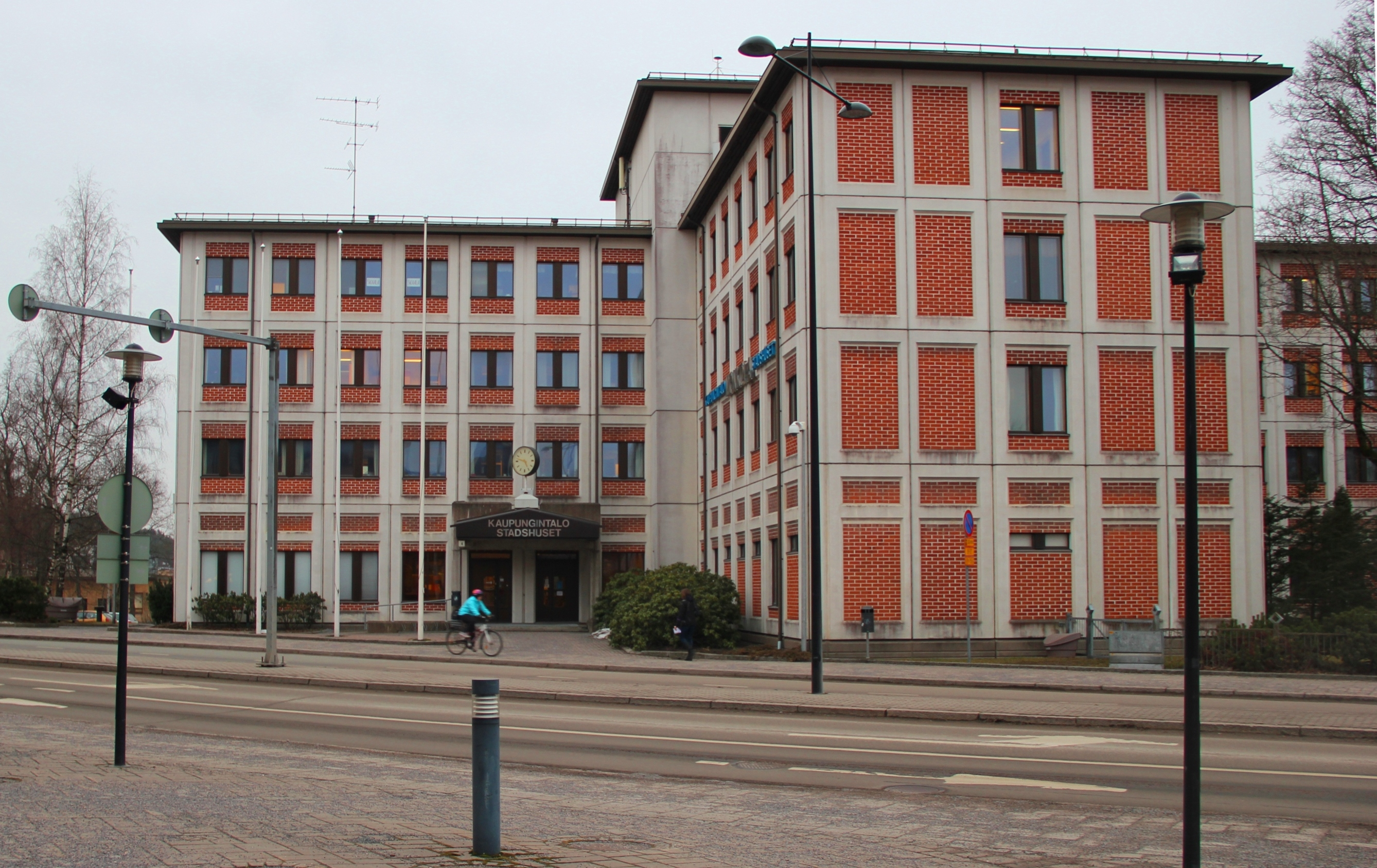 Lohja City hall Monkola